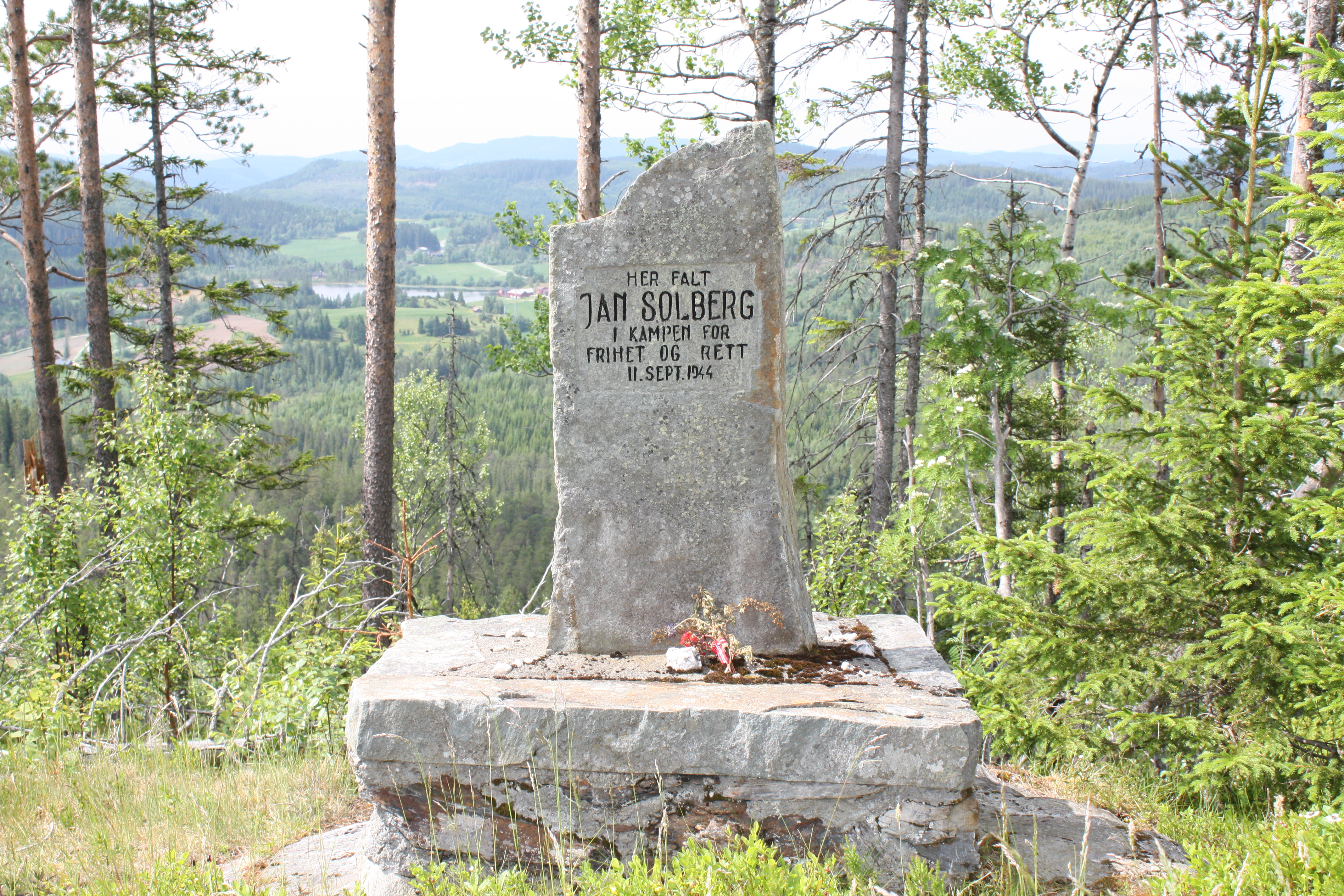 Memorial for Jan Solberg at Hasetkammen in Malvik, Norway